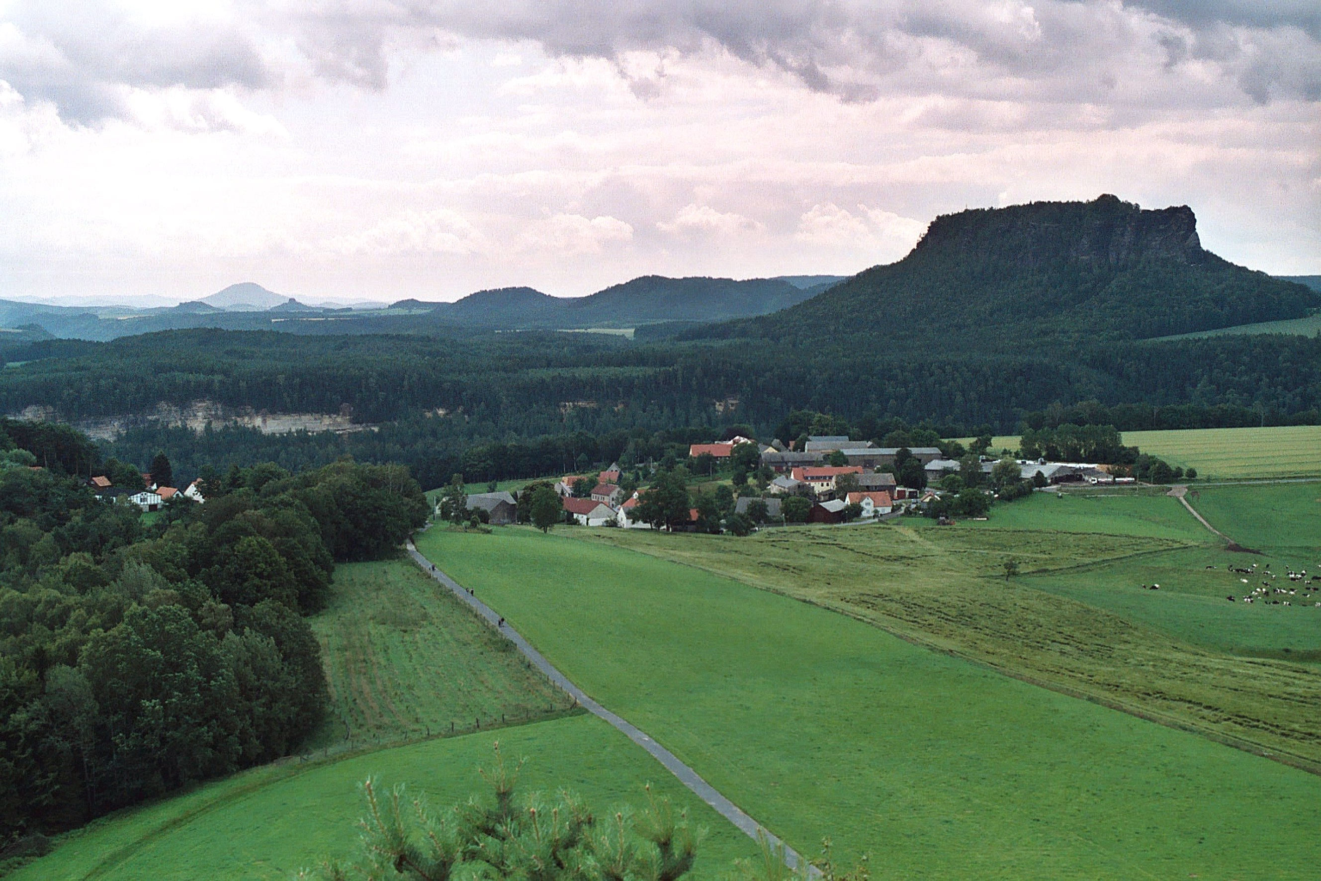 View from the Rauenstein to the village Weißig